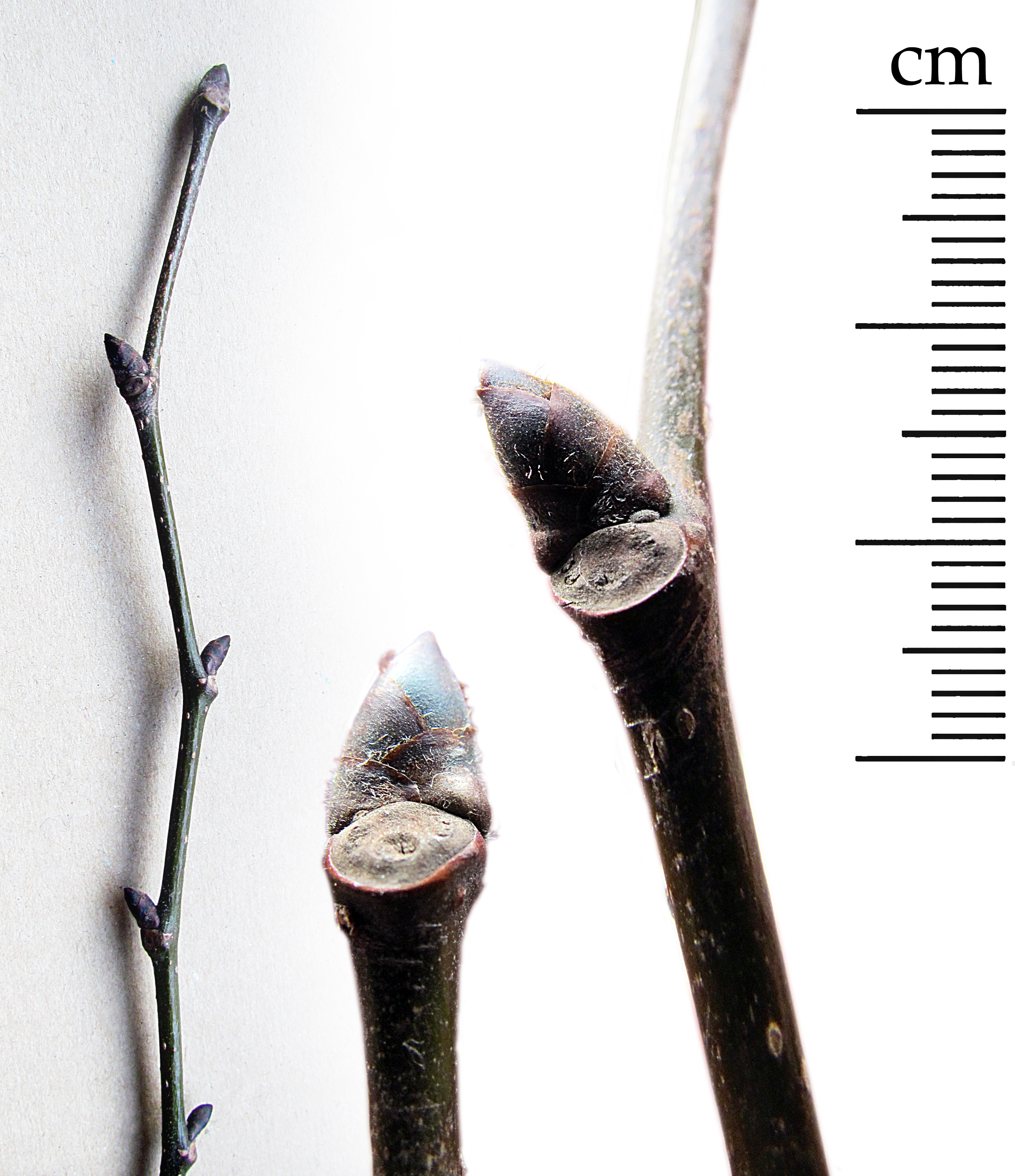 Ulmus glabra twig with buds.